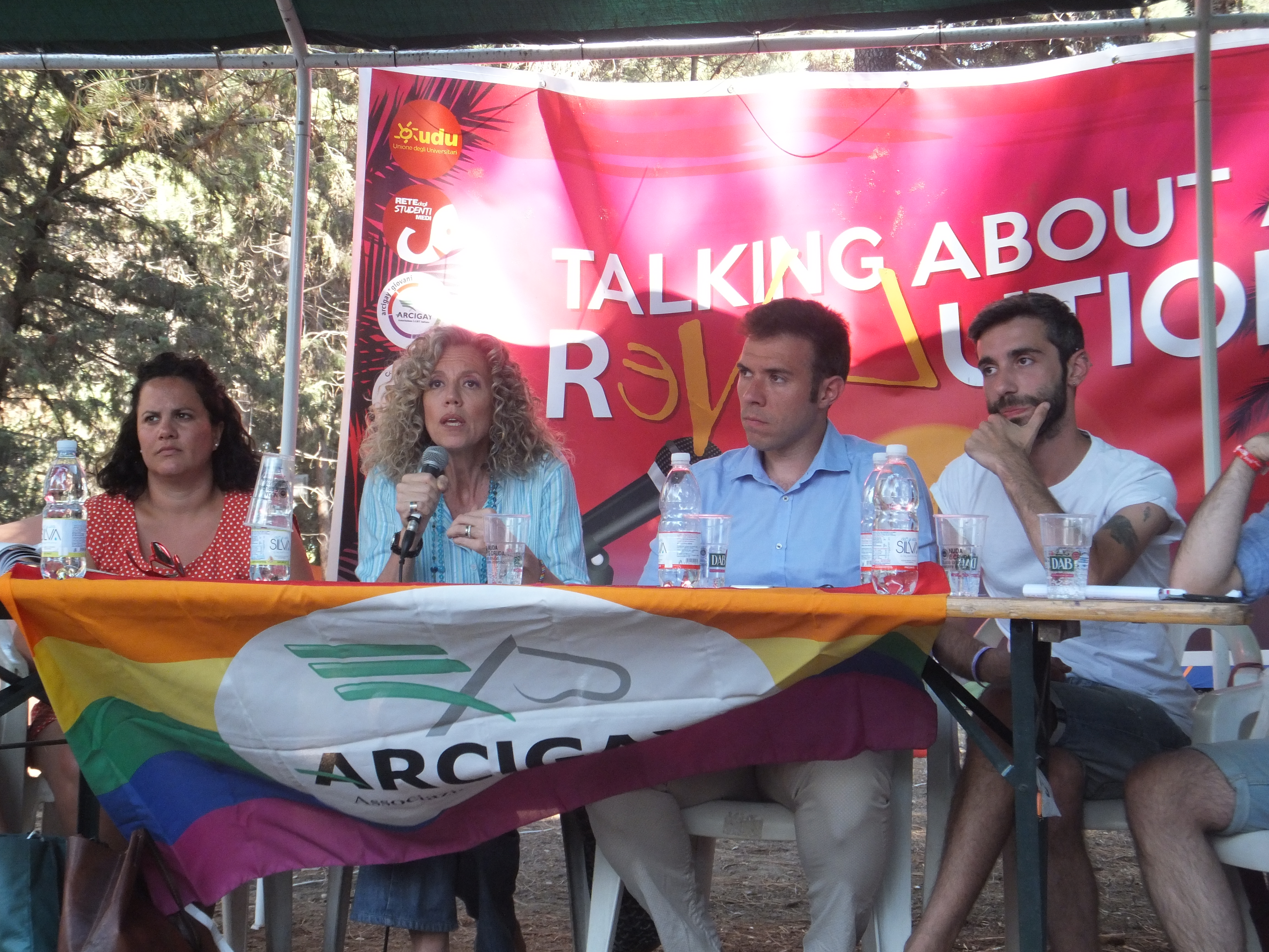 Public debate at Revolution Camp 2016, Marina di Massa; from left: Elena Mosti (assessor of the Comune of Massa), Monica Cirinnà (senator Partito Democratico), Gabriele Piazzoni (national secretary of Arcigay) e Shamar Droghetti (delegate for the youth policies of Arcigay)